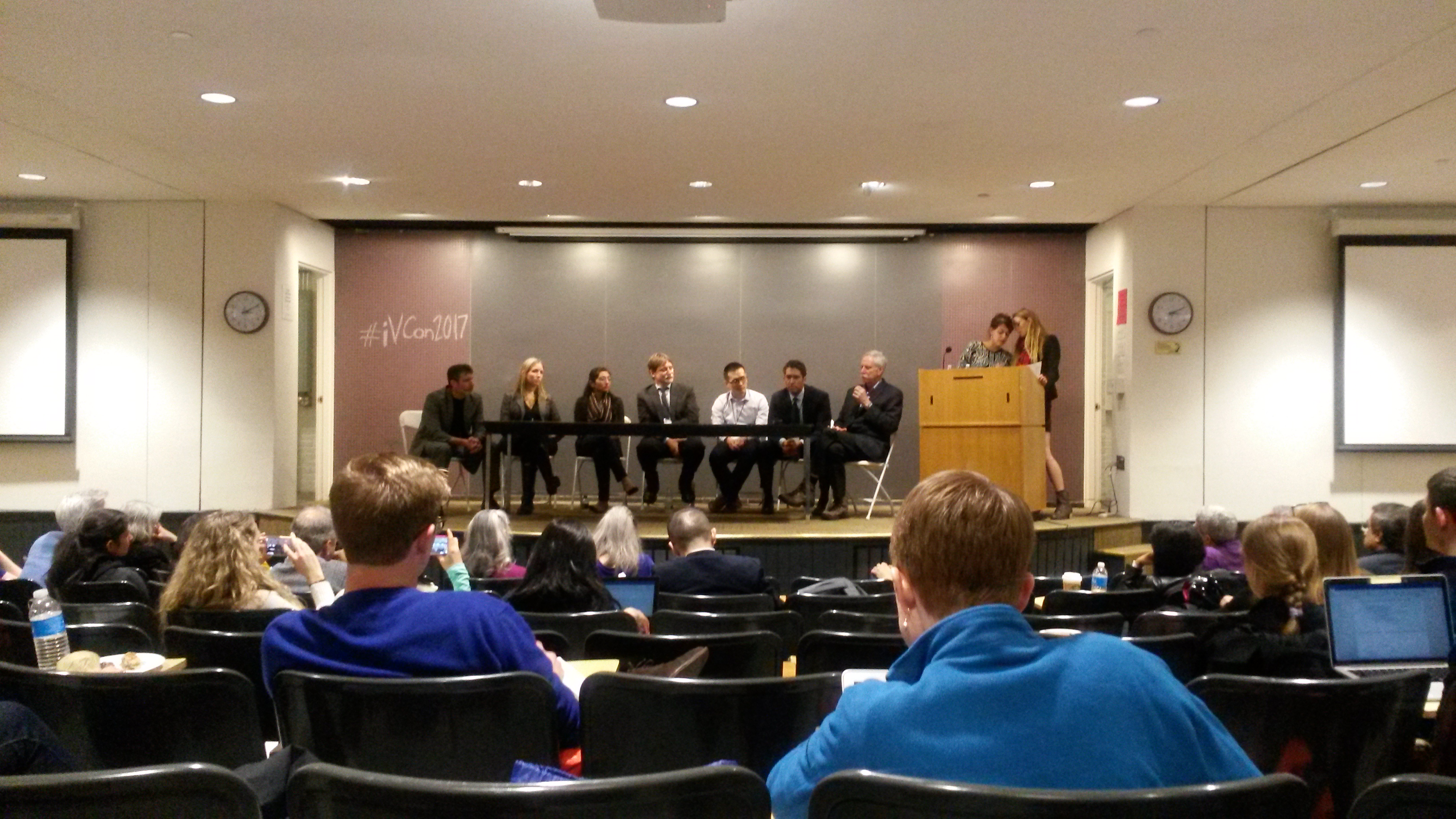 Walter Willett